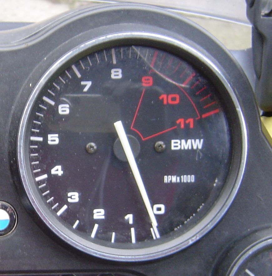 Motorcycle tachometer.